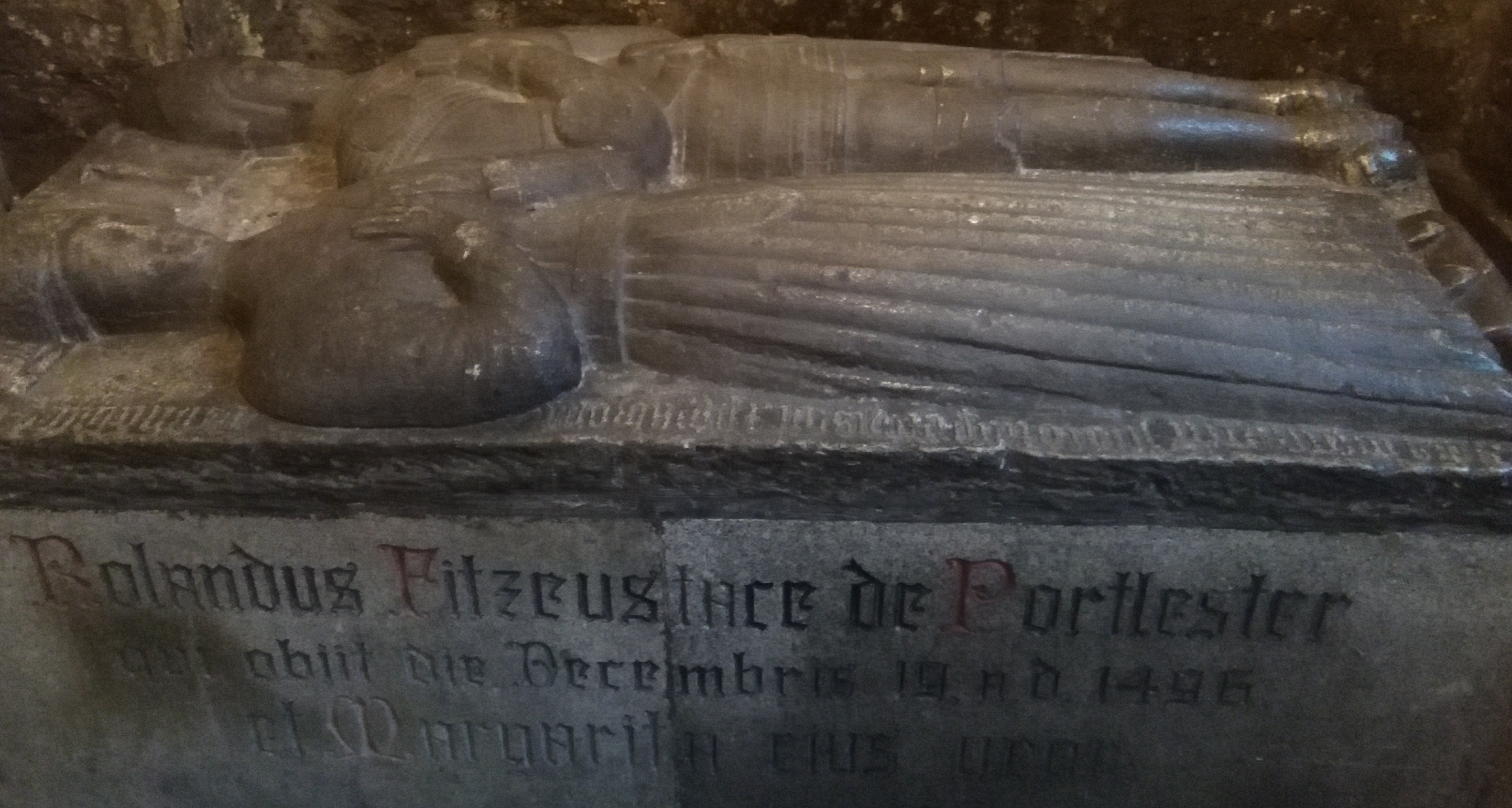 Rowland FitzEustace, 1st Baron Portlester